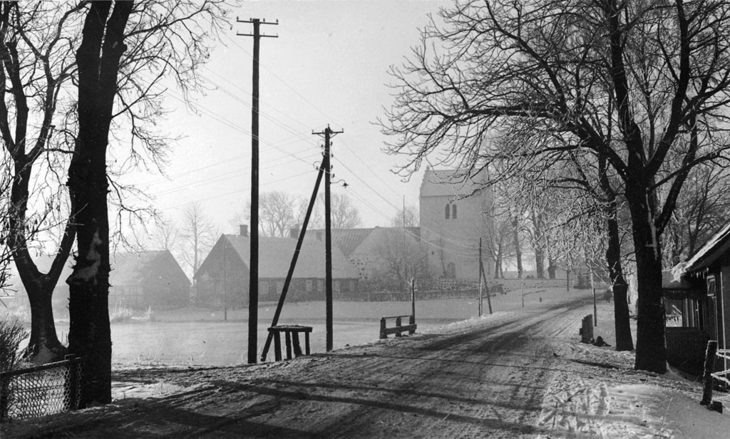 View from north over Norra Vram Church, with its oldest parts from the 12th century. Telephone poles along the village road.